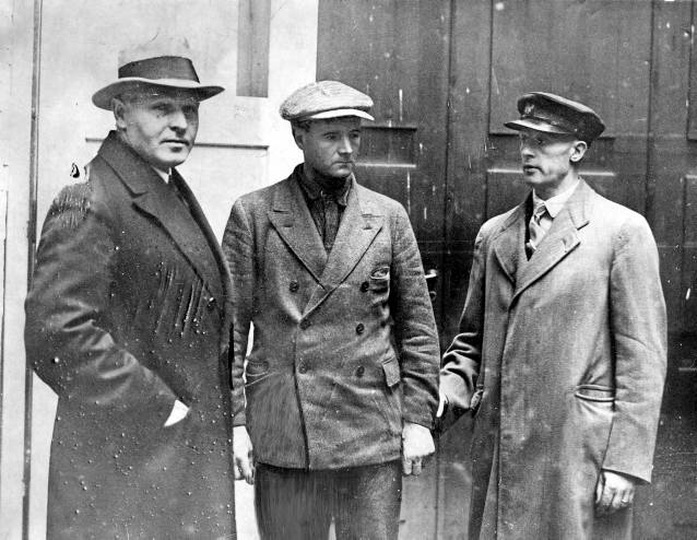 Two days after his arrest he was transported to Malmö. After served his time in jail he left his criminal life behind him, eventually moved to Gothenburg and worked as a tailor. He's buried at Kviberg cemetary.